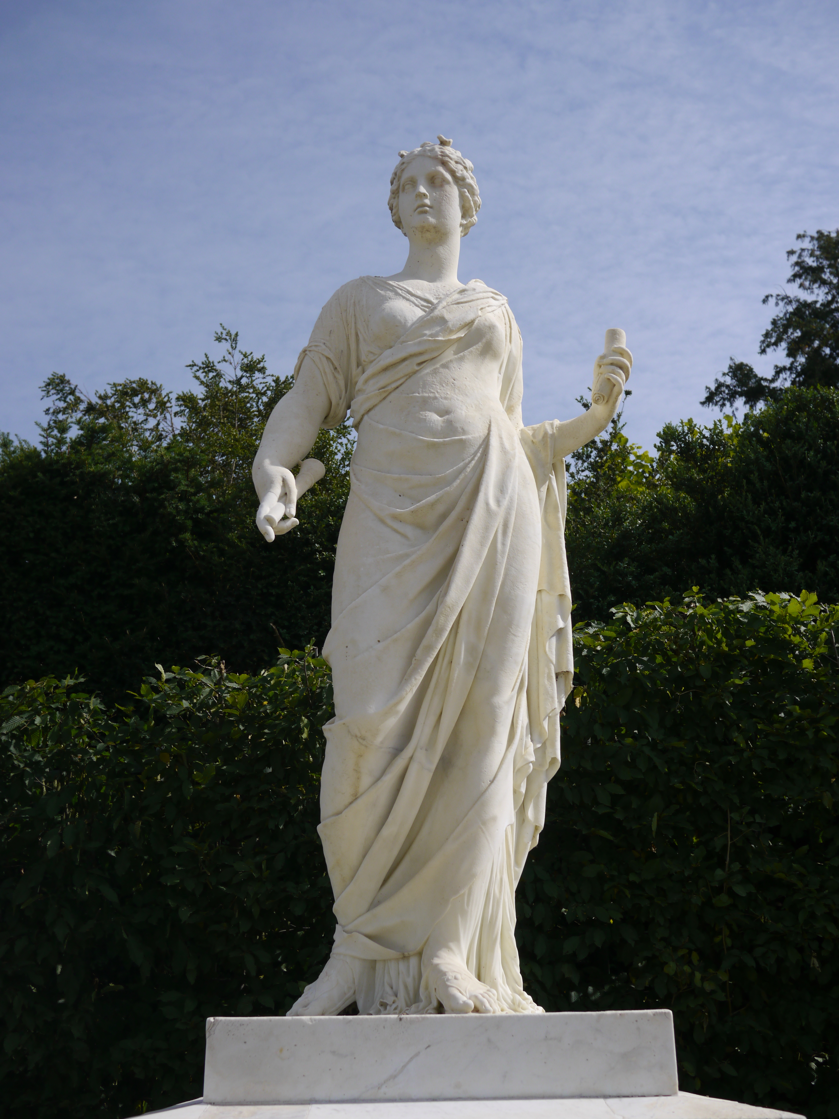 Photograph taken at the Park of the 'Château de Versailles' in France.